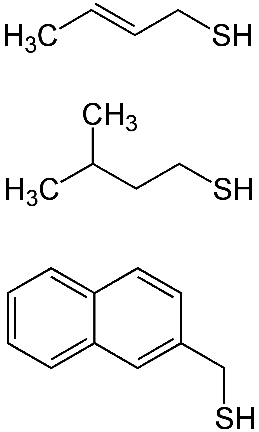 Skunk-Spray-Thiols Structural Formulae